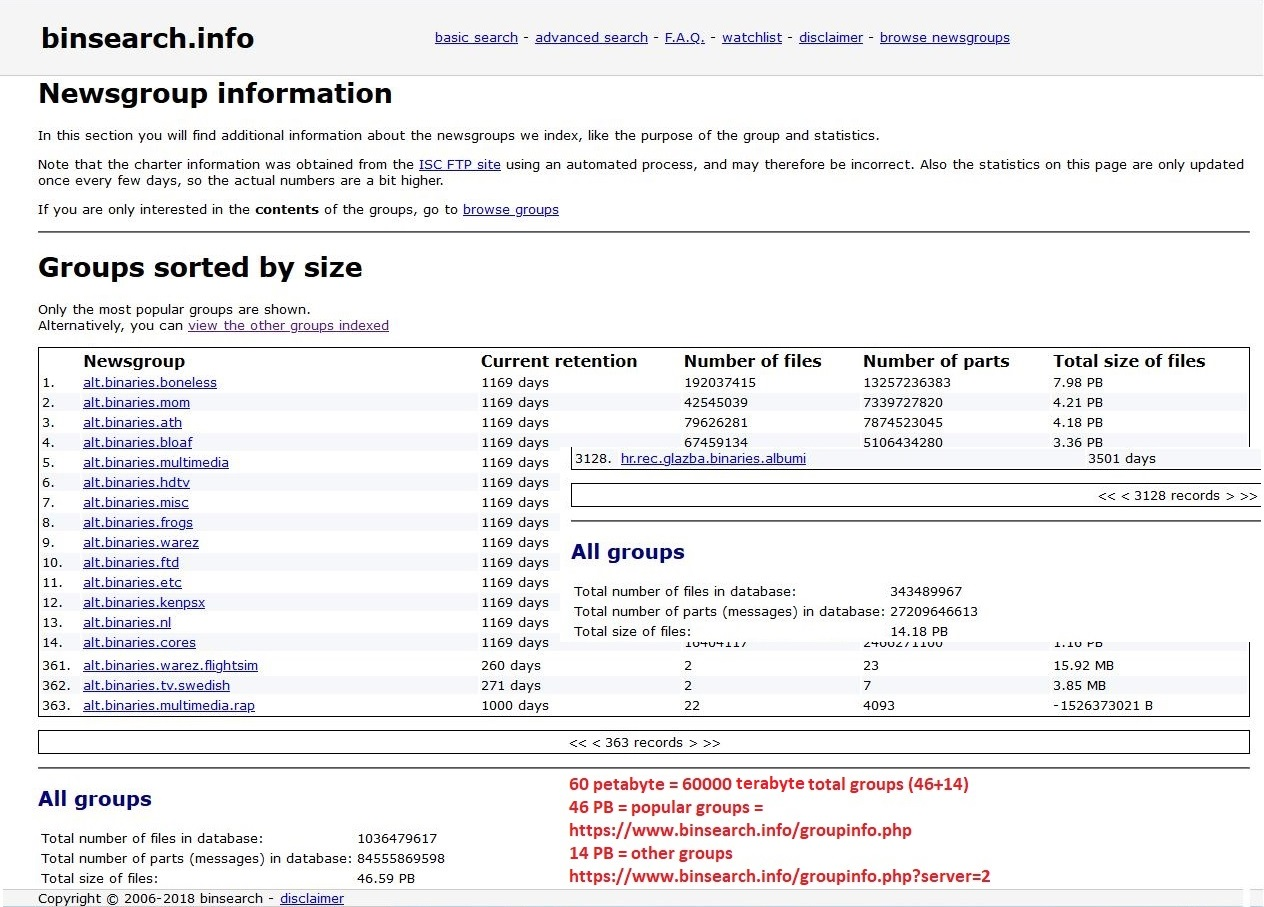 With 1341+ days retention, the (binary) usenet storage (that indexes) is more than 33 petabytes (33000 terabytes). plus